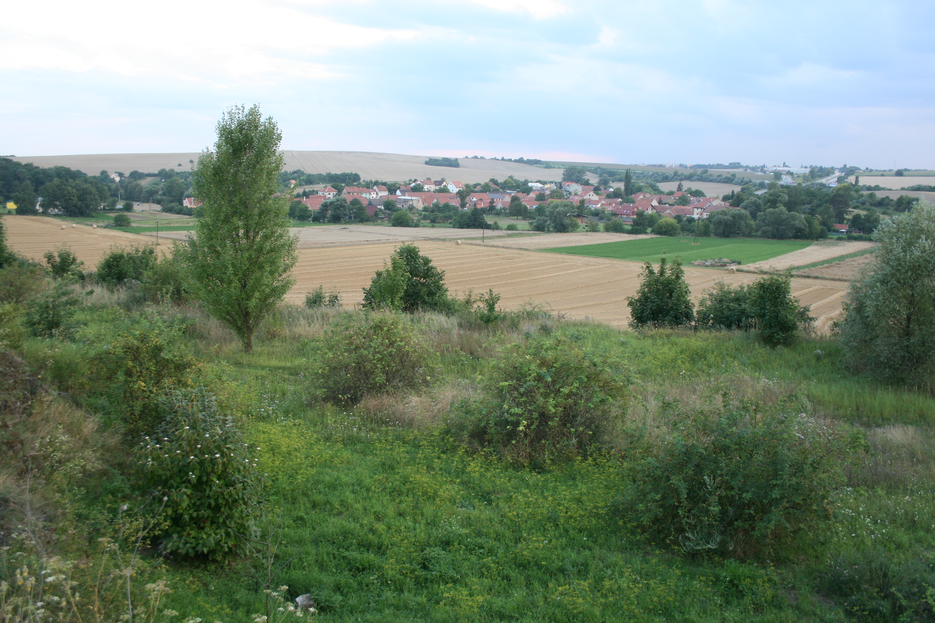 Natural monument Horka in Podolí cadaster, Brno-Country District. Czech Republic.